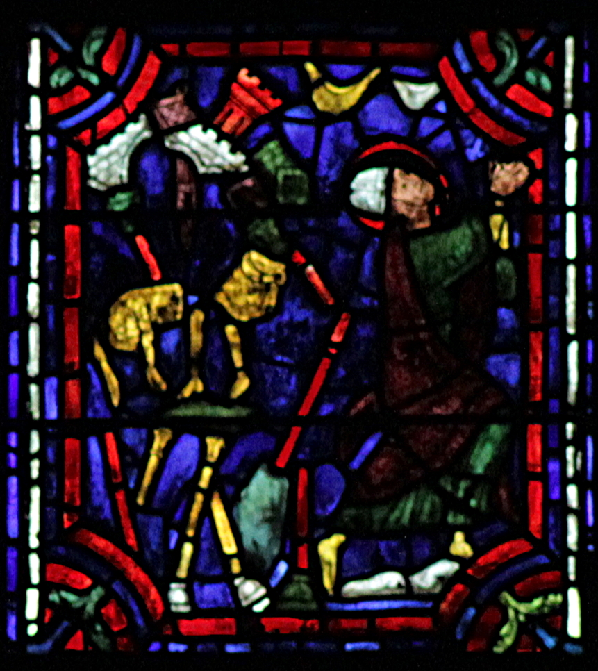 Fragment of File:Chartres 36 -Corrected.jpg - Life of St Apollinaris